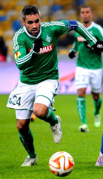 Loïc Perrin